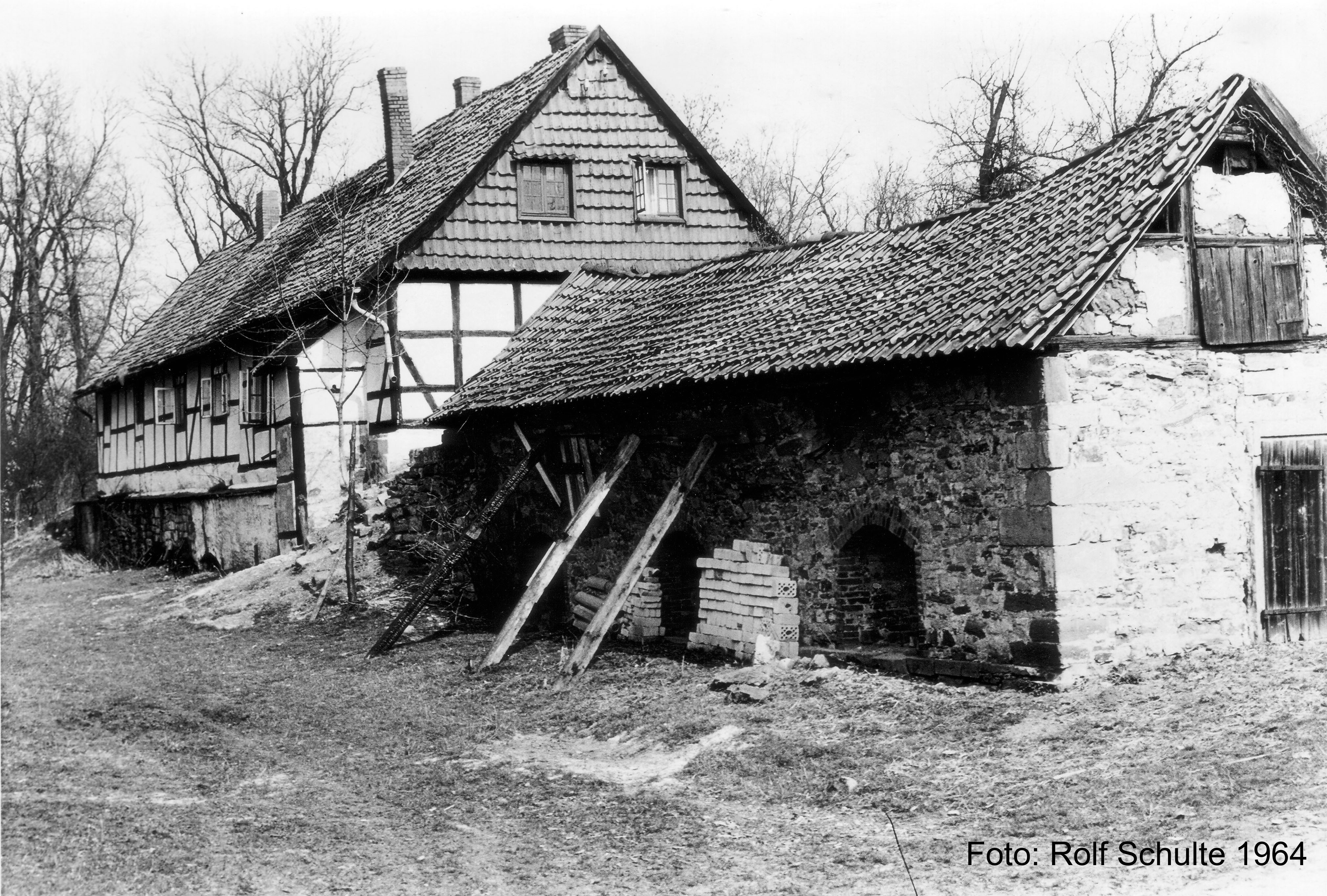 Timber-framed house and outbuilding on the site of Calenberg Castle in 1964. The buildings have since been demolished. Lower Saxony, Germany